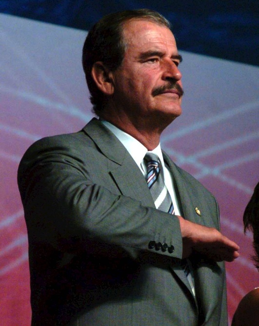 Cropped picture of Vicente Fox, President of Mexico performing the Civil Salute.